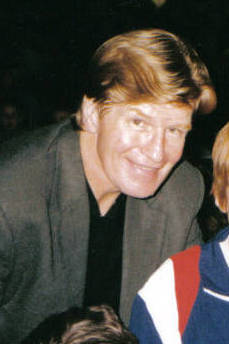 Keith Magnuson, March 17, 2002, guest of honor the Wilmette Hockey Association Awards Night.